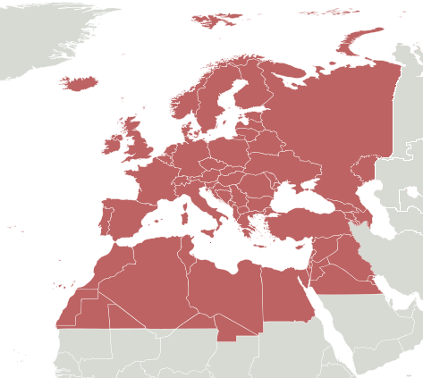 Map of the Western Palaearctic adapted from Commons File:Ecozone_Palearctic.svg, cropped and recoloured, based on BWP